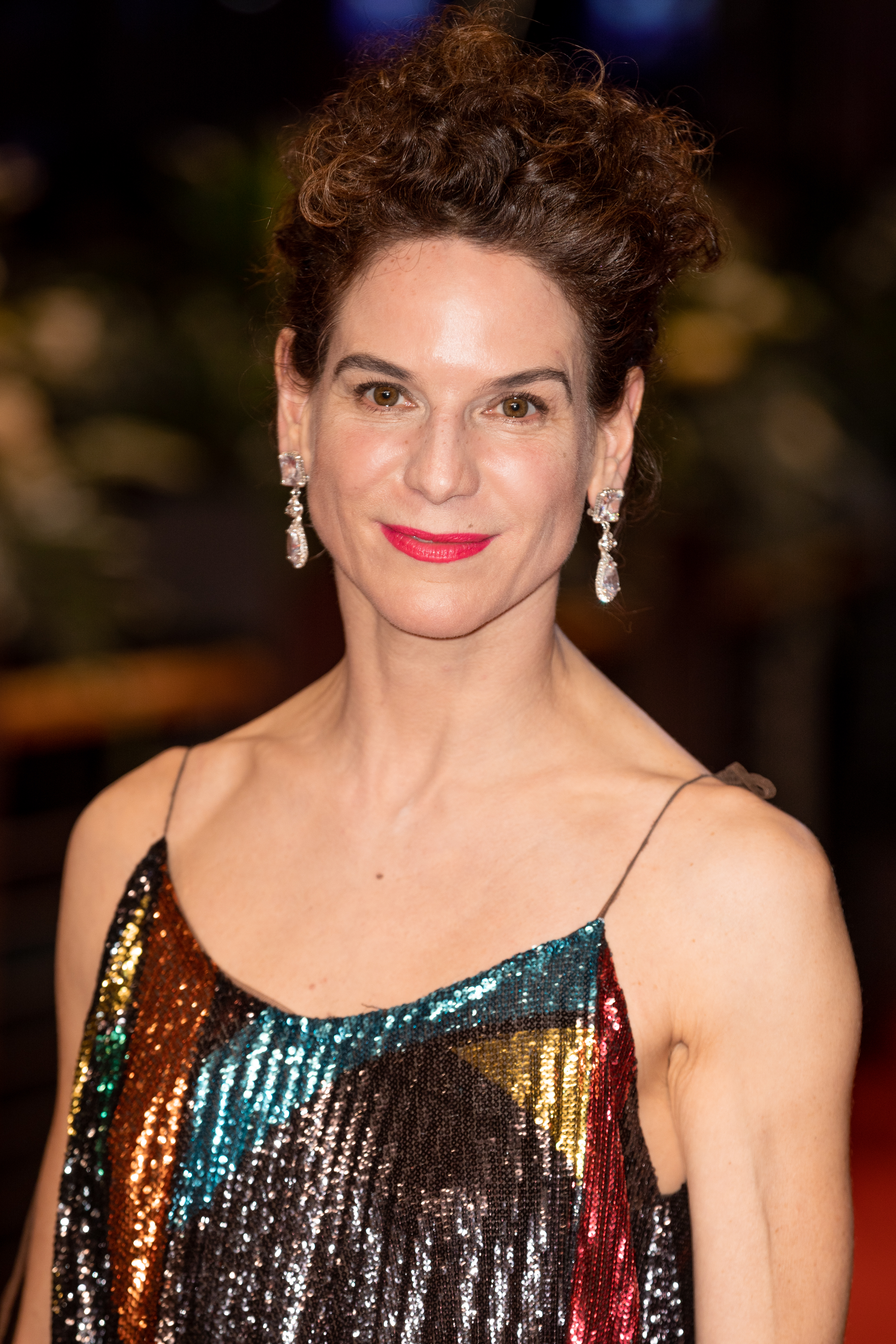 Bibiana Beglau at Berlinale 2020